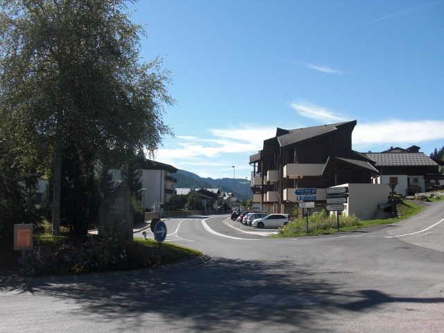 Col des Gets: Pass summit, looking west